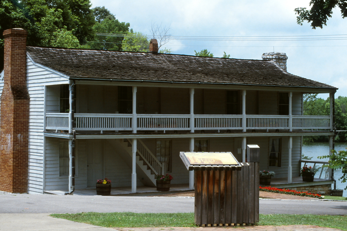 near Ft. Donelson; Buckner's HQ during the battle